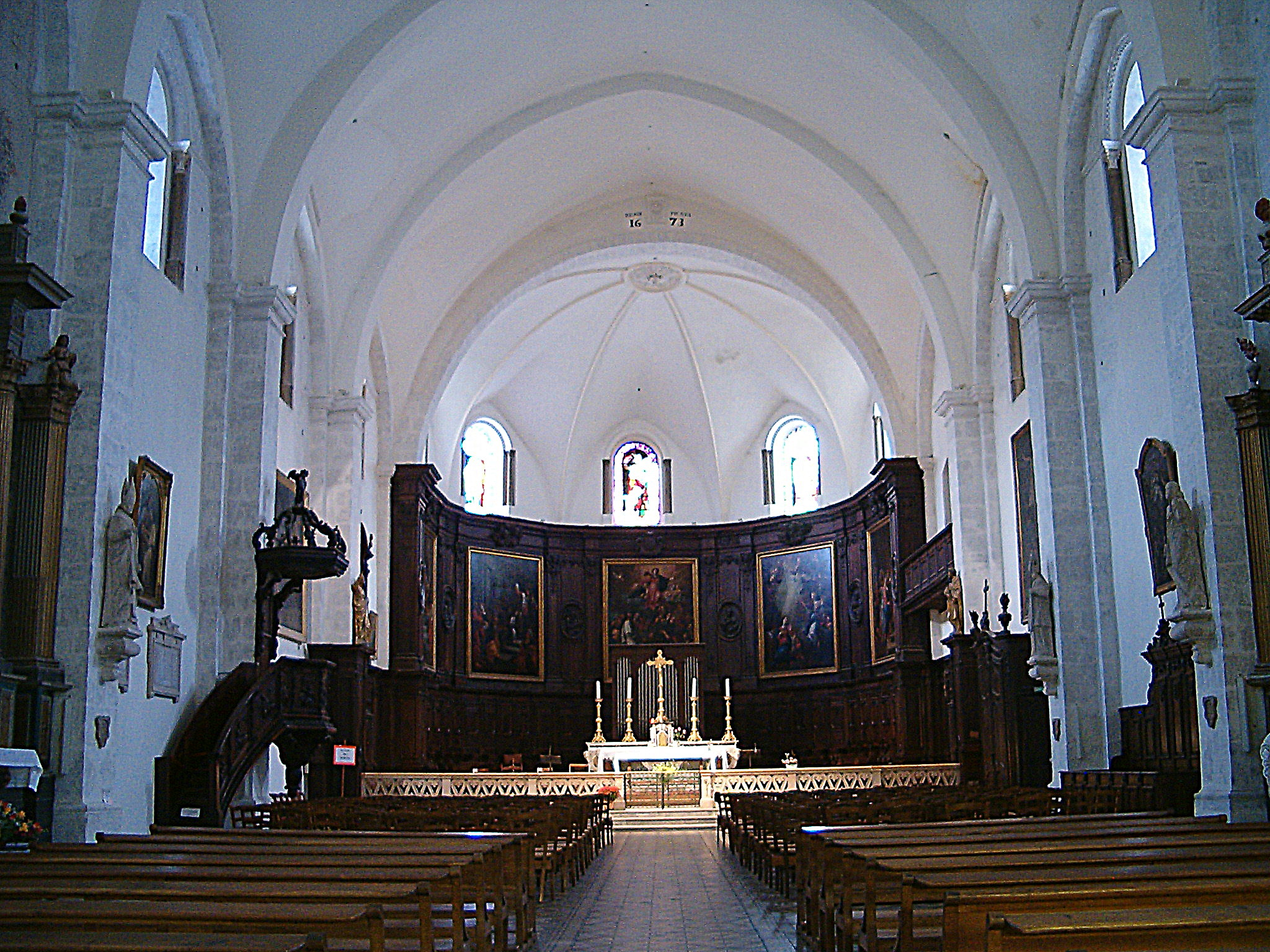 Interior of Die's Cathedral